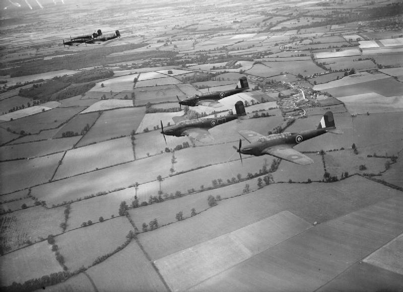 Royal Air Force 1939-1945- Bomber Command Battles from No 12 Operational Training Unit (OTU) at Benson, Oxfordshire, flying in 'vic' formation, 26 July 1940.